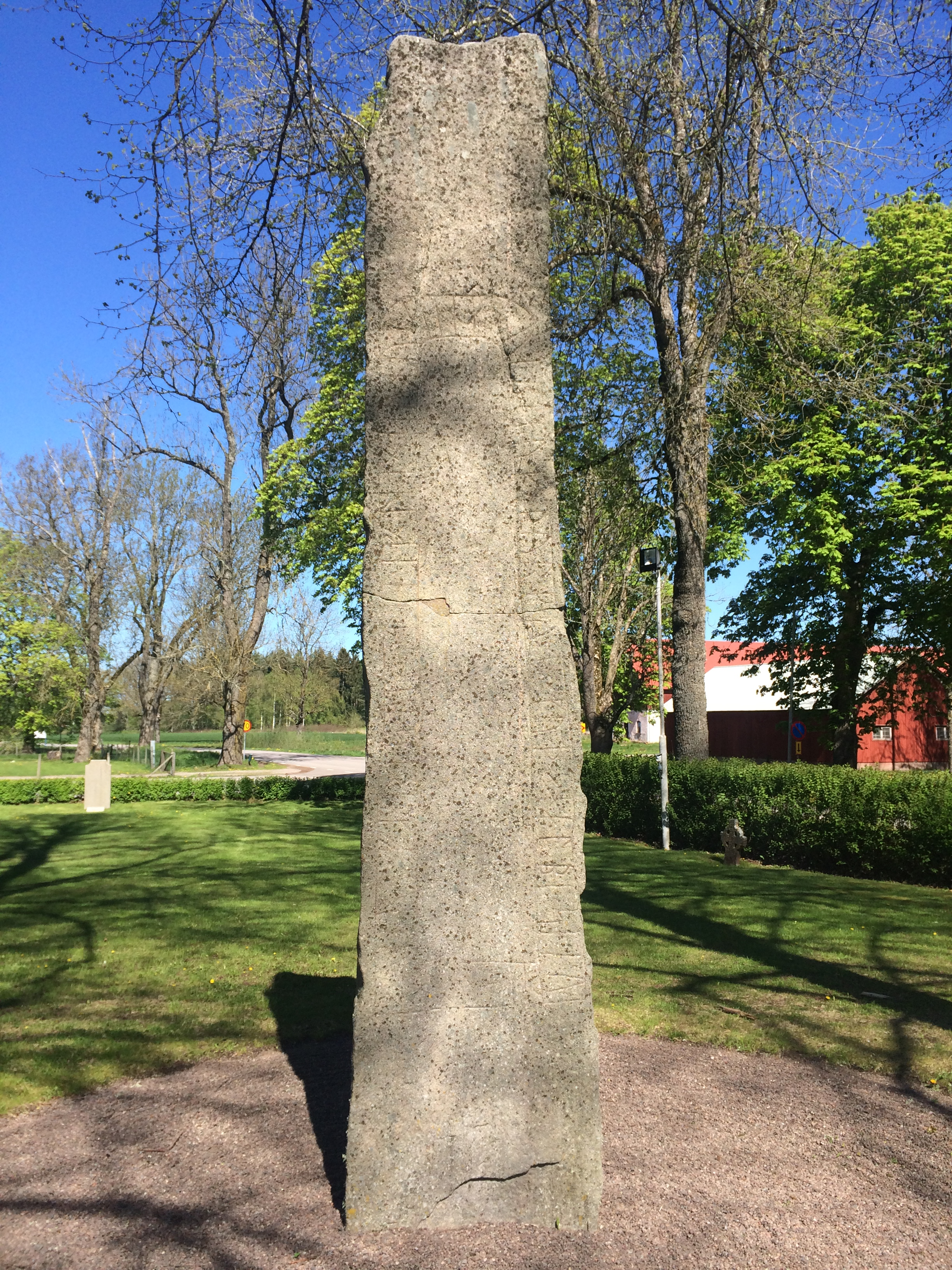 The "Levene" runic stone by the Stora Levene Church, in Vara, Central Sweden